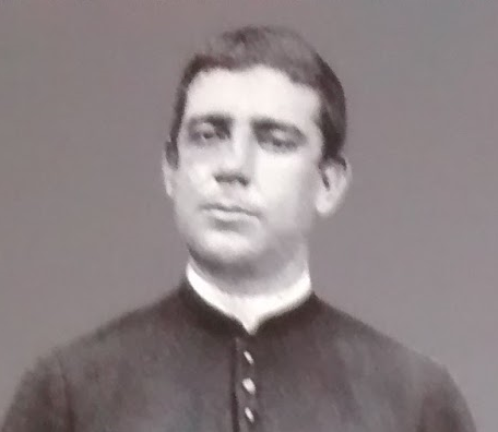 Donizetti Tavares de Lima (1882-1961), Brazilian Roman Catholic priest, Venerable